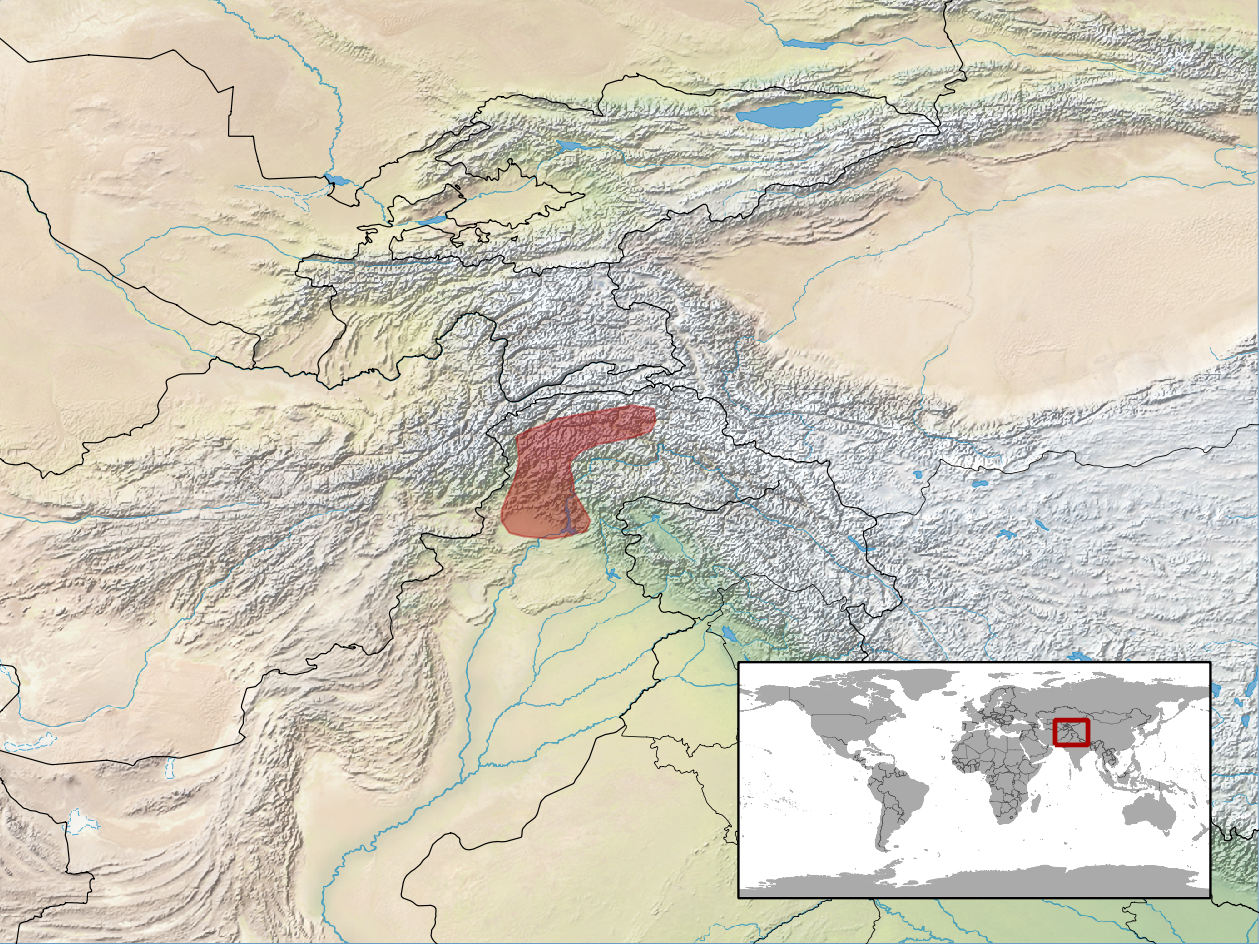 geographic distribution of Cyrtopodion walli (Native: India; Pakistan)